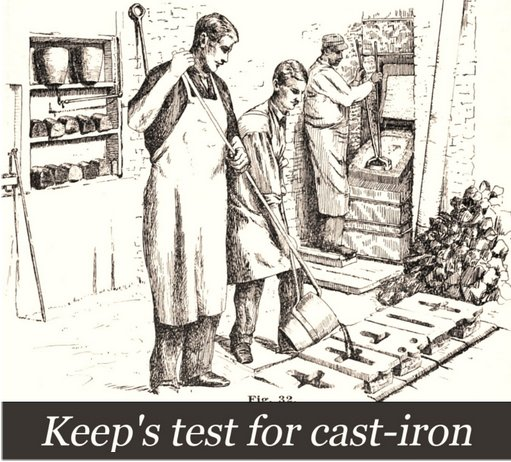 Pamphlet book cover for Keep's Test for Cast-iron: A Description of the Routine to be Pursued by Those Using this Method of Testing by William John Keep